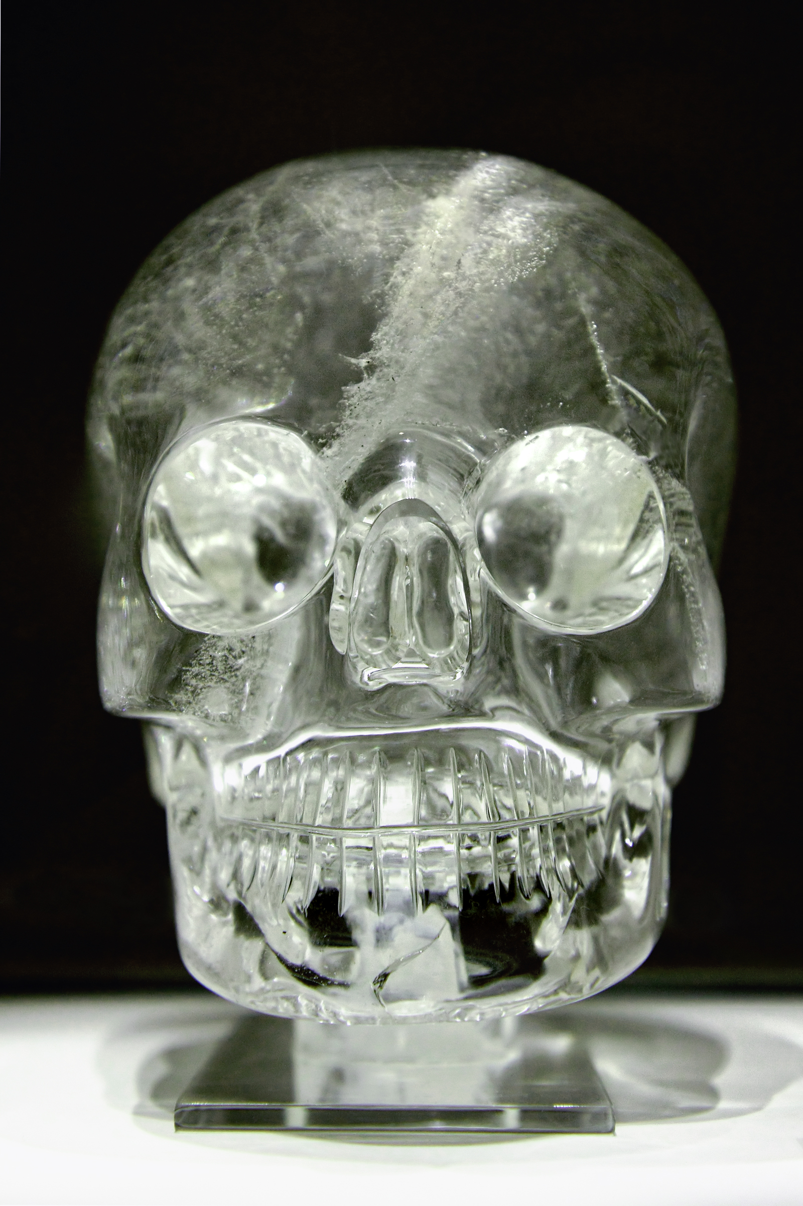 The crystal skull. Collection of the British Museum in London.